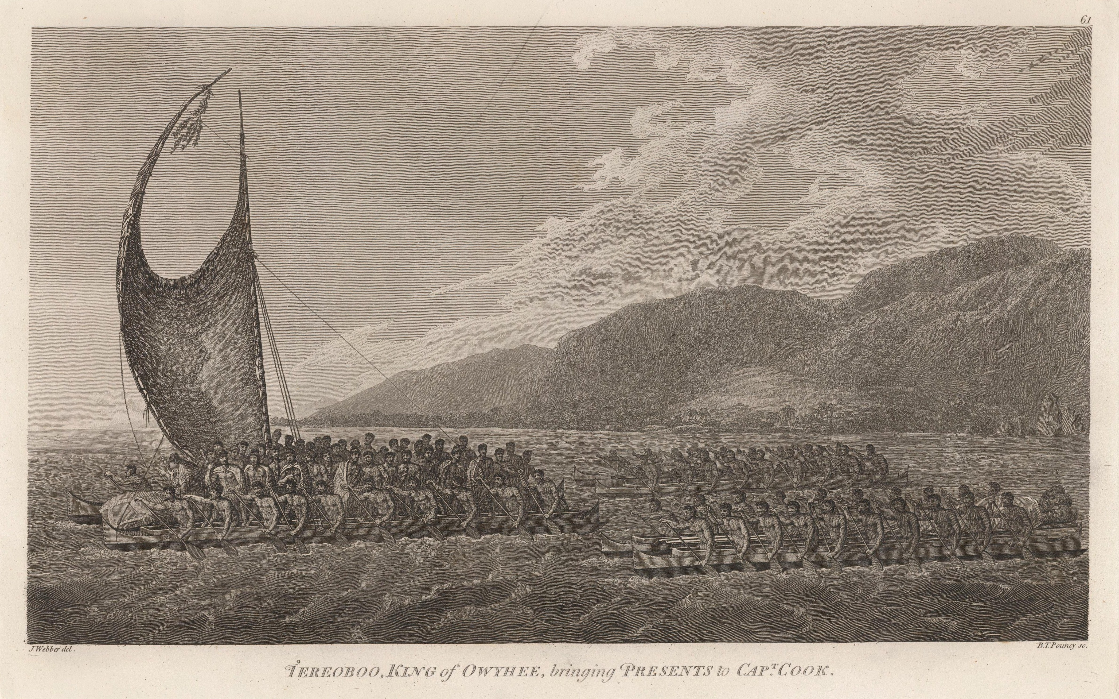 Kalaniopuu, King of Hawaii, bringing presents to Captain Cook. Shows a Hawaiian canoe with "crab-claw" and many oarsmen, carrying Kalaniopuu, the Hawaiian chief, to visit Captain Cook aboard the 'Resolution'. The main canoe, an outriger, is followed by two double-hulled canoes without sails, full of oarsmen, and one boat is carrying wrapped carved figures. The Hawaiian coastal hills can be seen in the right background.